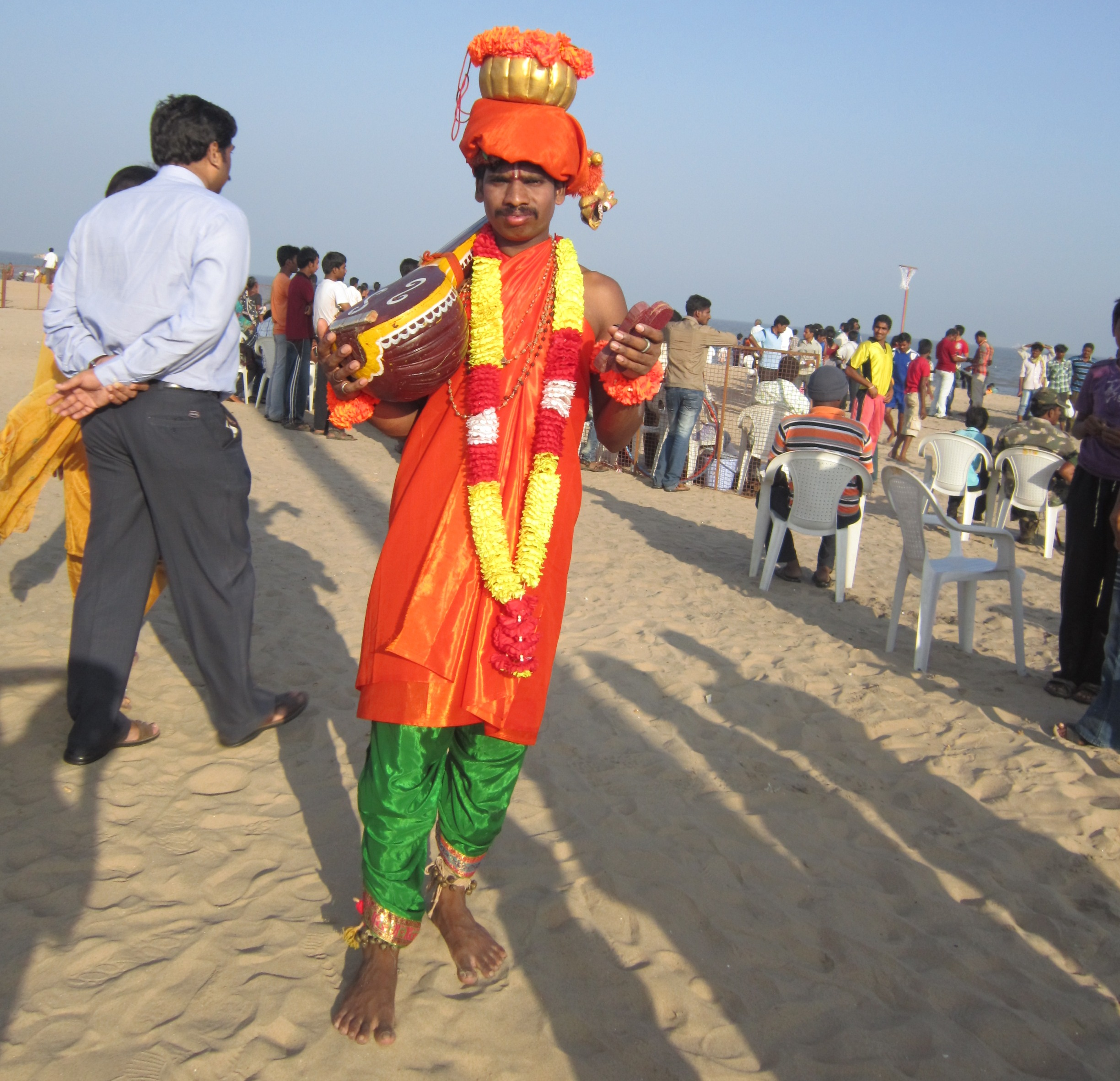 Haridas in A.P